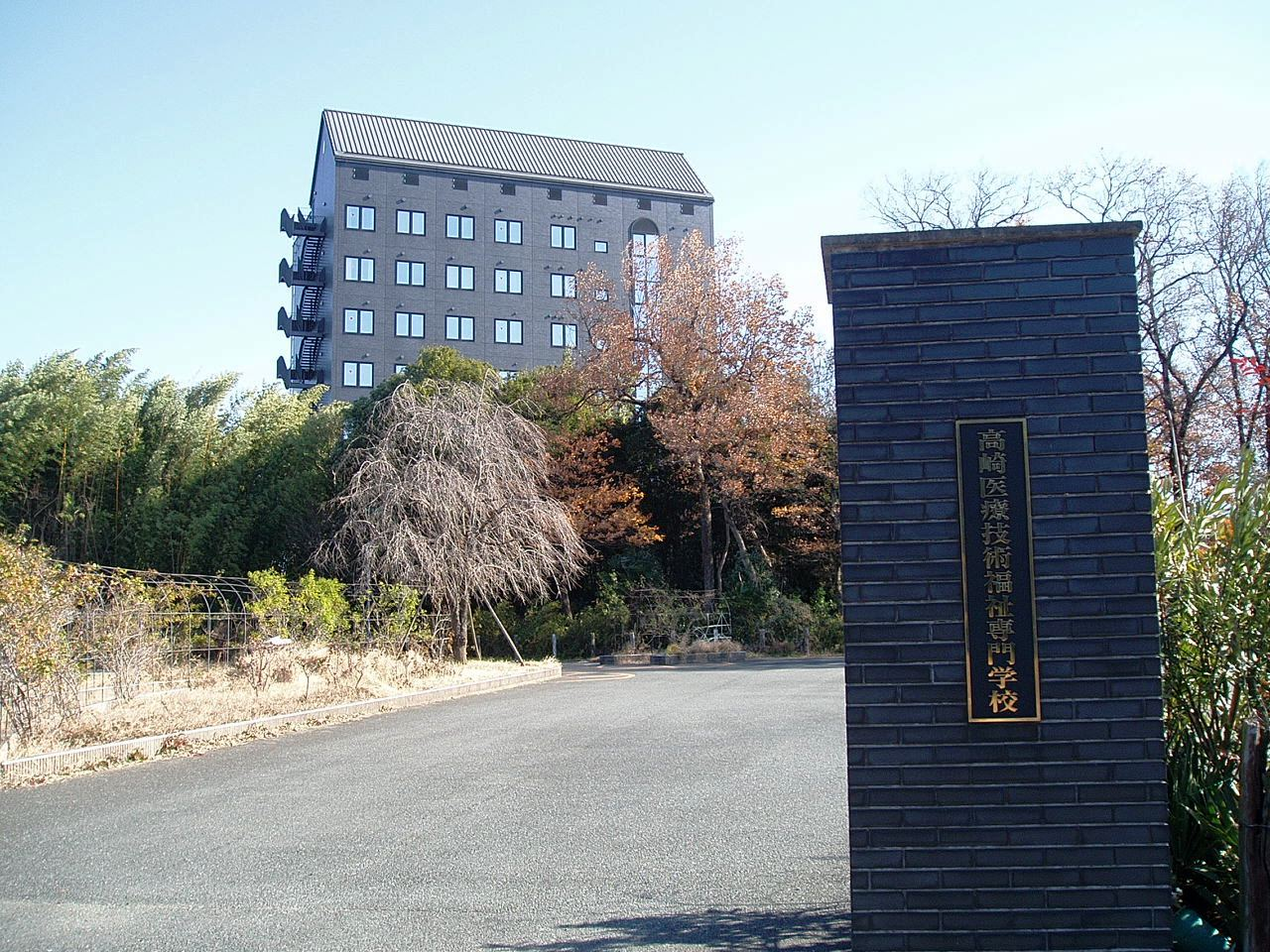 The main entrance to Shimotaki Campus, the University of Creation; Art, Music & Social Work (Souzou Gakuen University), located in Shimotakimachi, Takasaki, Gunma, Japan.